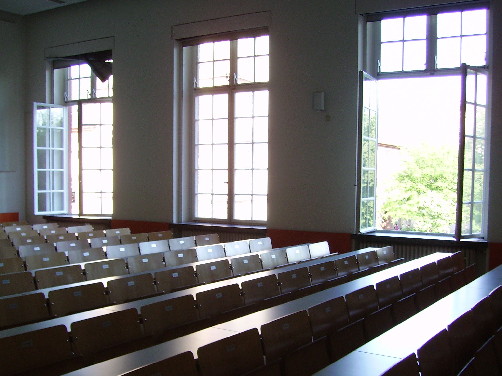 interior view of Mannheim castle, Germany